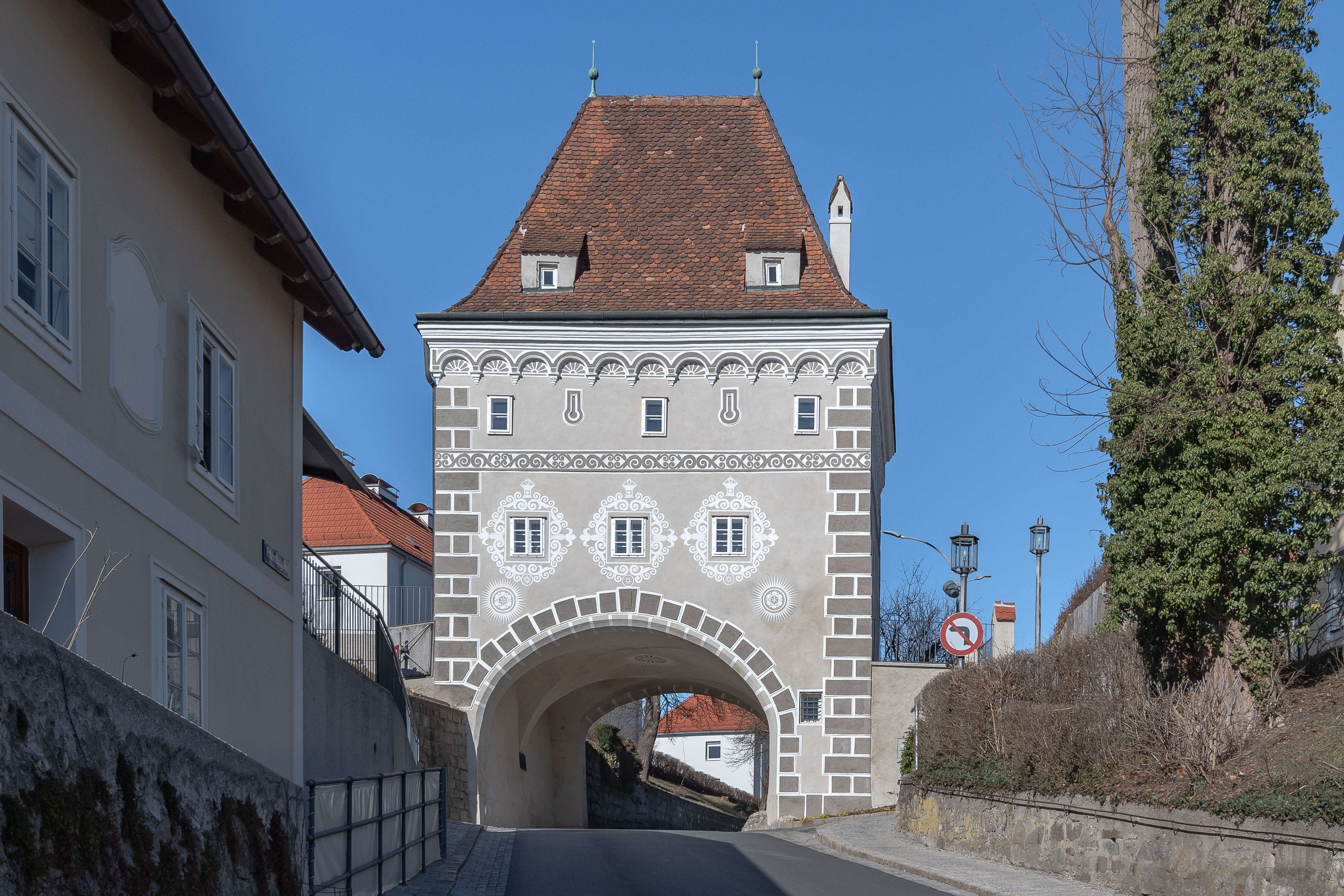 The gate tower "Schnallentor" in Steyr / Upper Austria was erected around 1600.